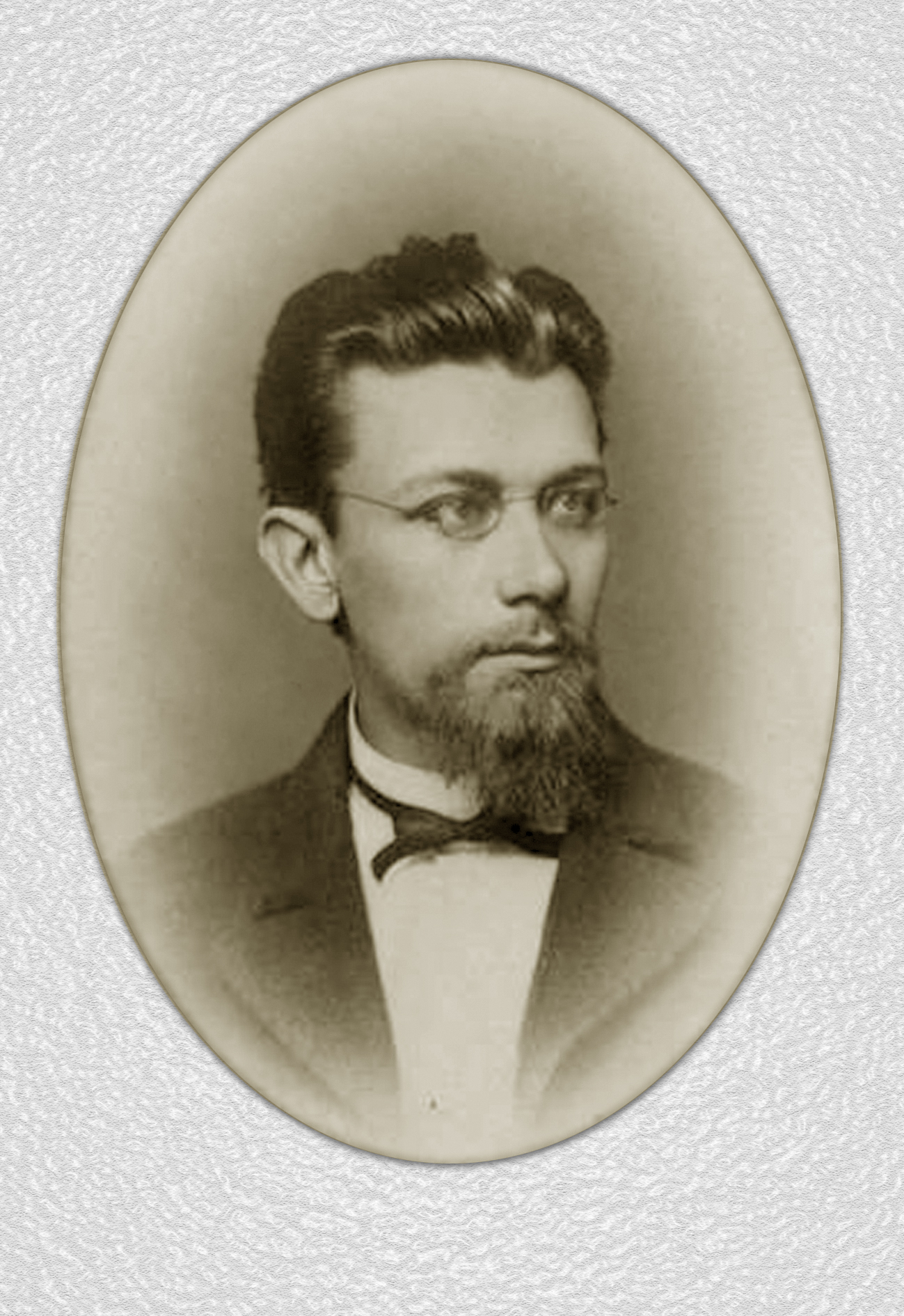 Karl_Körber